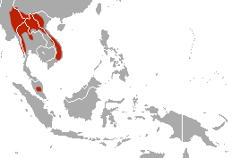 Kloss's Mole (Euroscaptor klossi) range